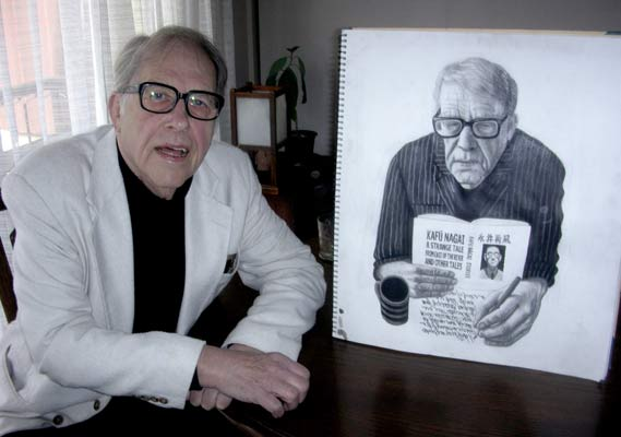 Japan Writer Donald Richie with his portrait by UK artist Carl Randall.